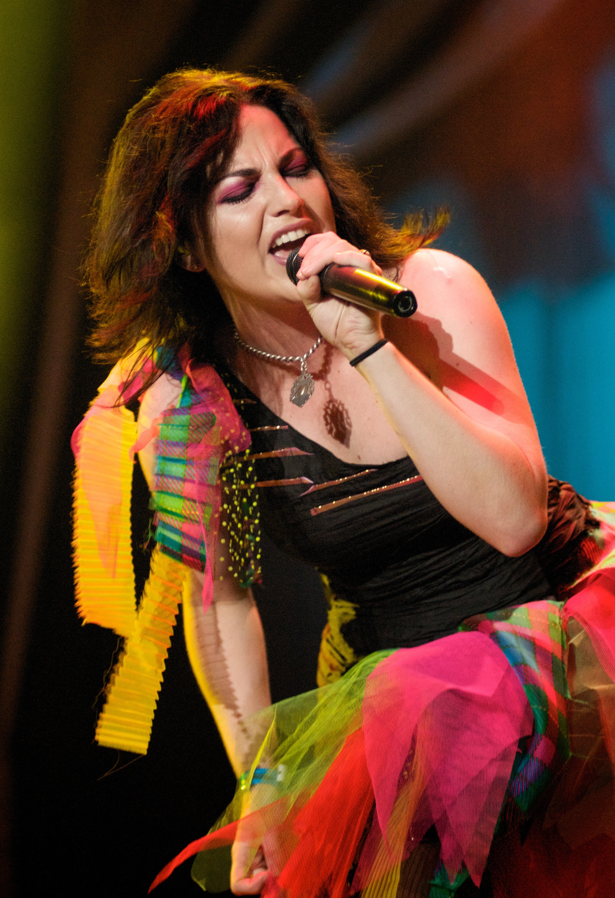 Amy Lee of Evanescence in Maquinária Festival, occurred in November 8 2009 at Chácara do Jóquei, São Paulo, Brazil.